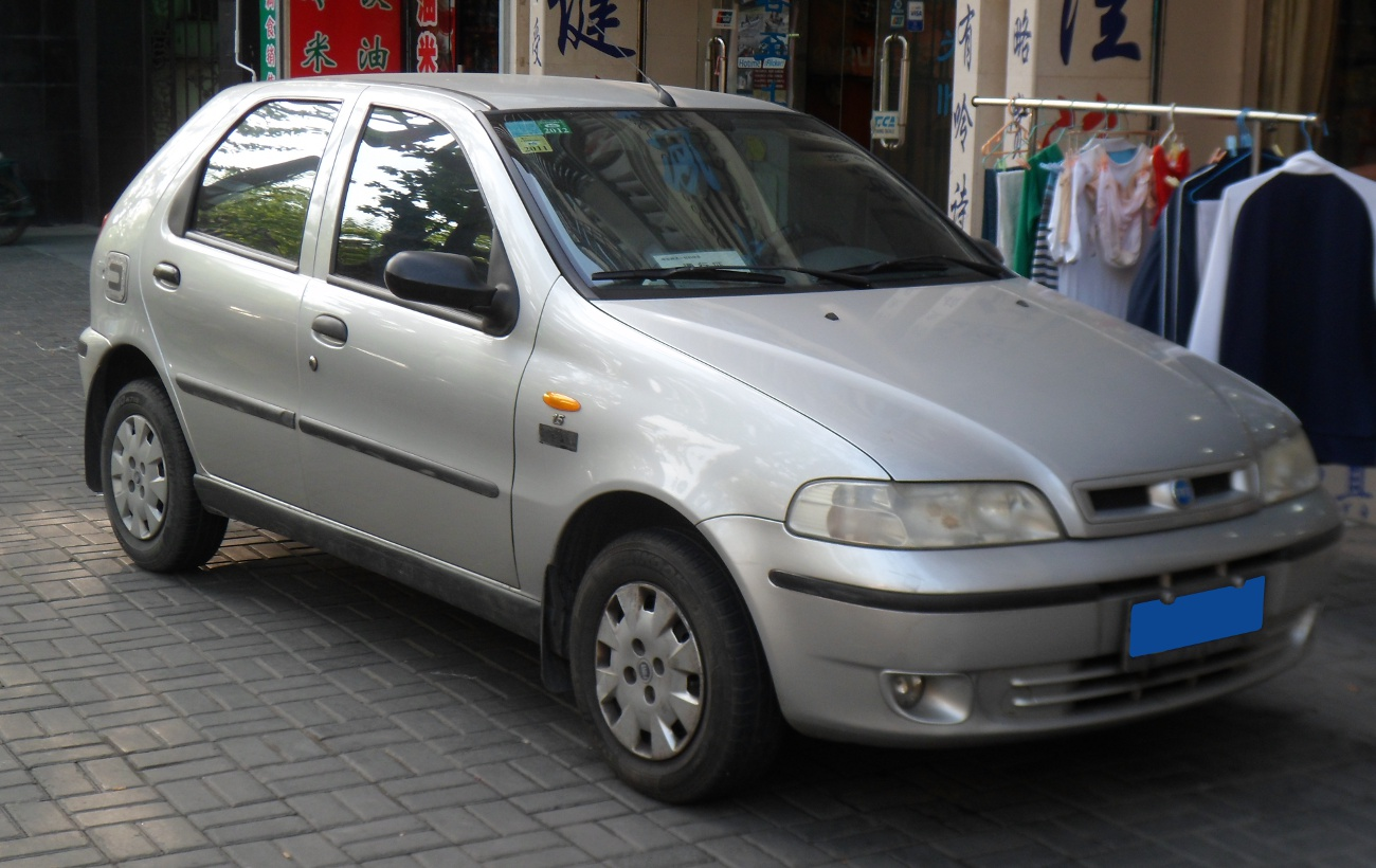 Fiat Palio photographed in Shanghai, China.